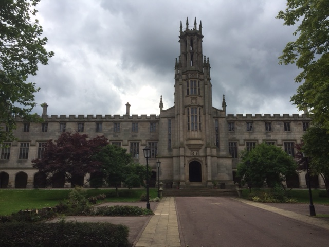 The British Muslim Heritage Centre, Whalley Range, Manchester. A Grade II* listed building.